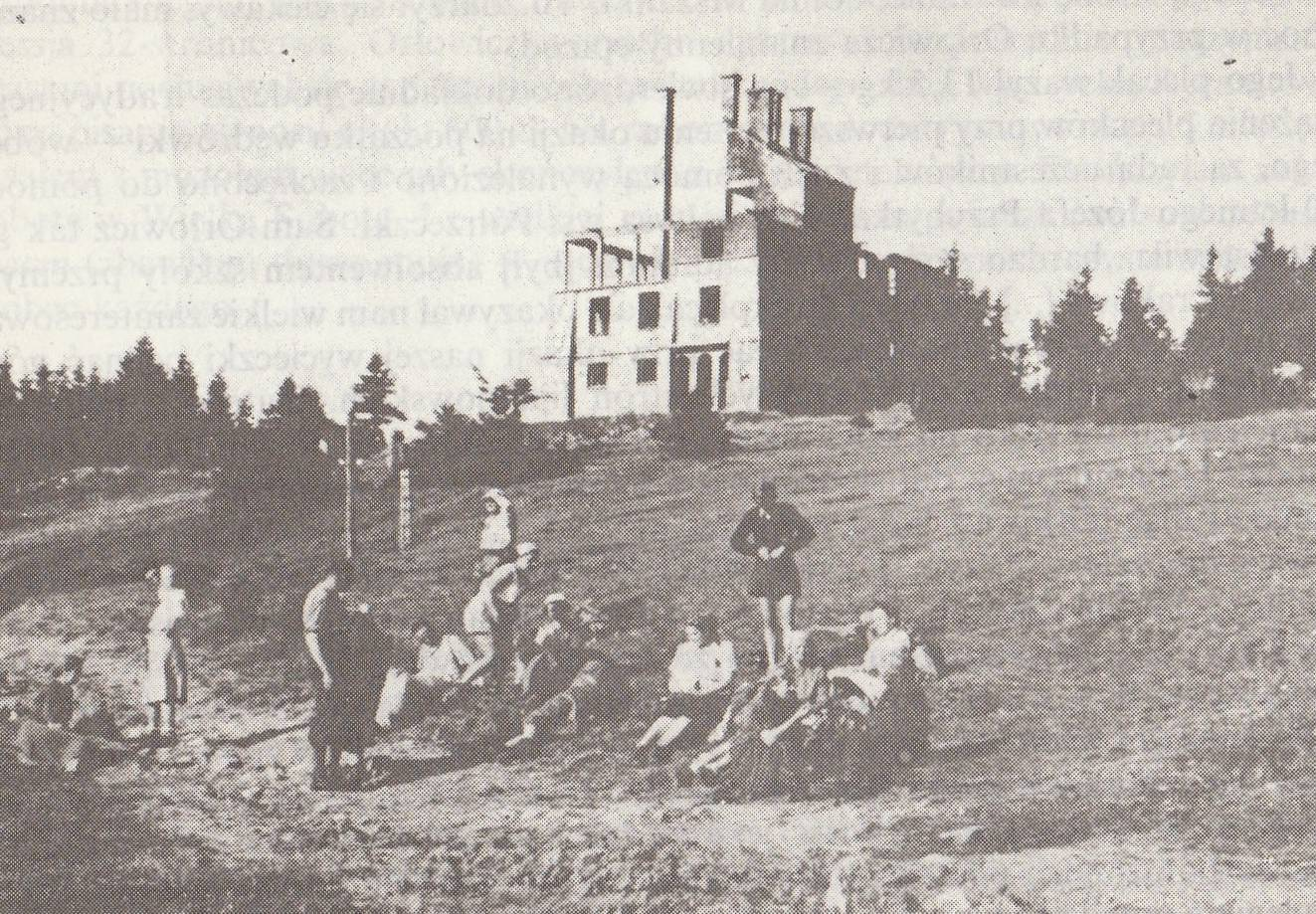 Burnt mountain hut on Turbacz mountain